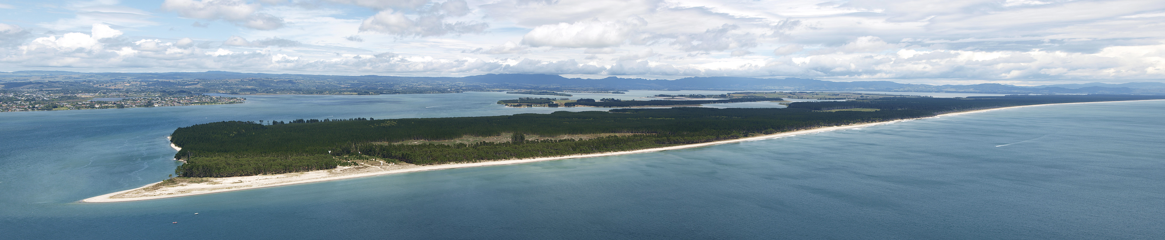 Matakana Island and Tauranga Harbour, Bay of Plenty, New Zealand - View from Mauao (also namend Mount Maunganui)